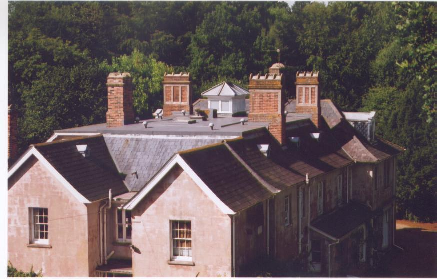 photo of Bourne House's roof from the east, by R.W. de Salis, 2005. User:RodolphRodolph 02:37, 22 January 2007 (UTC)